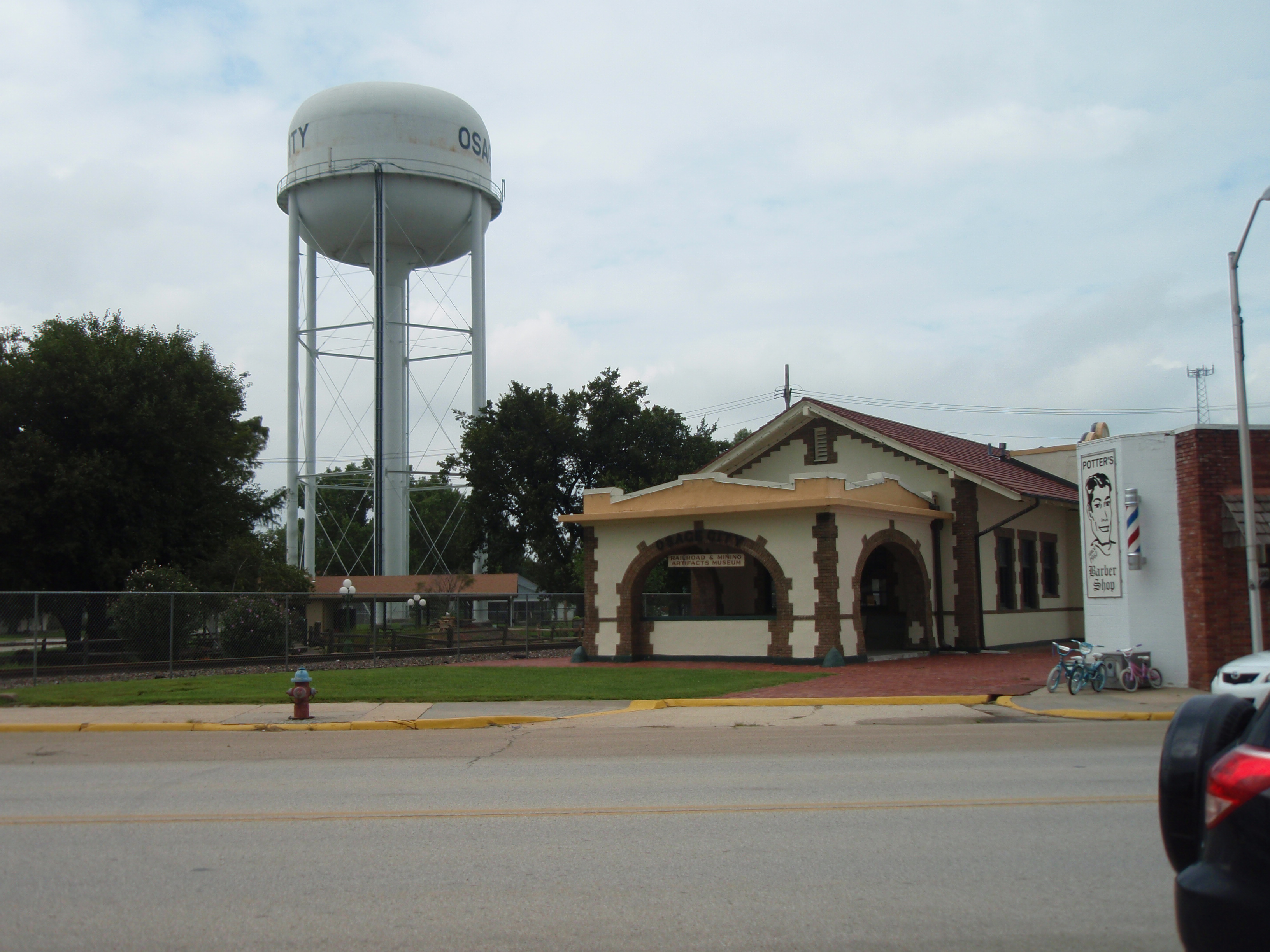 Train Depot and Water tower in Osage City, Kansas